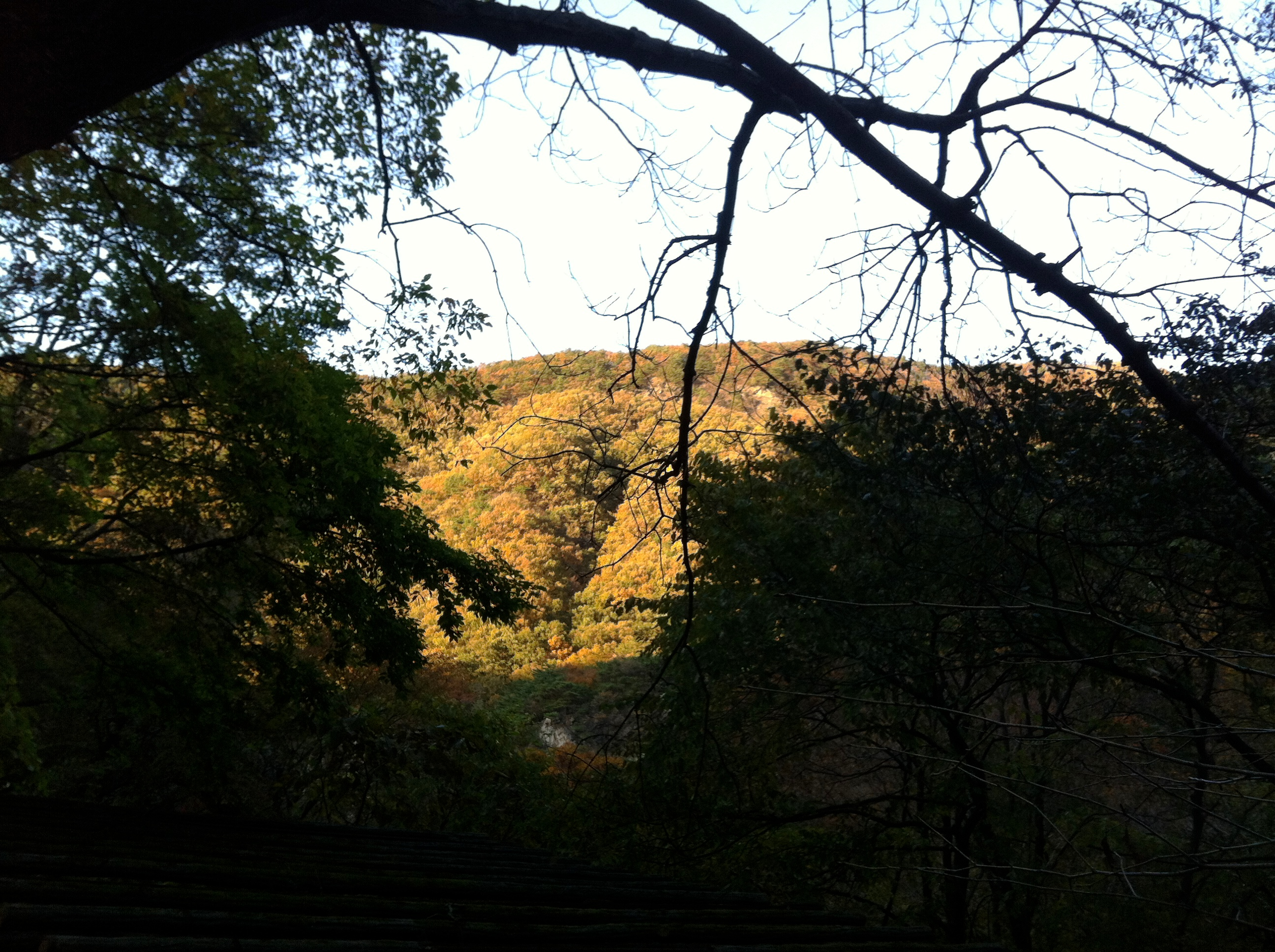 Soyosan, the mountain at Dongducheon city, Gyeonggi-do, Korea